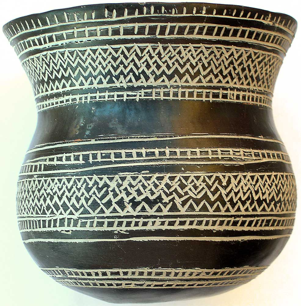 Replica of this Prehistoric earthenware vessel, which is part of a beaker-culture pottery group from Ciempozuelos (Community of Madrid, Spain) at the National Archaeological Museum of Spain. It was made of black clay between 1970 and 1470 BC (Bronze Age), and found in 1894 as a part of a funerary equipment.